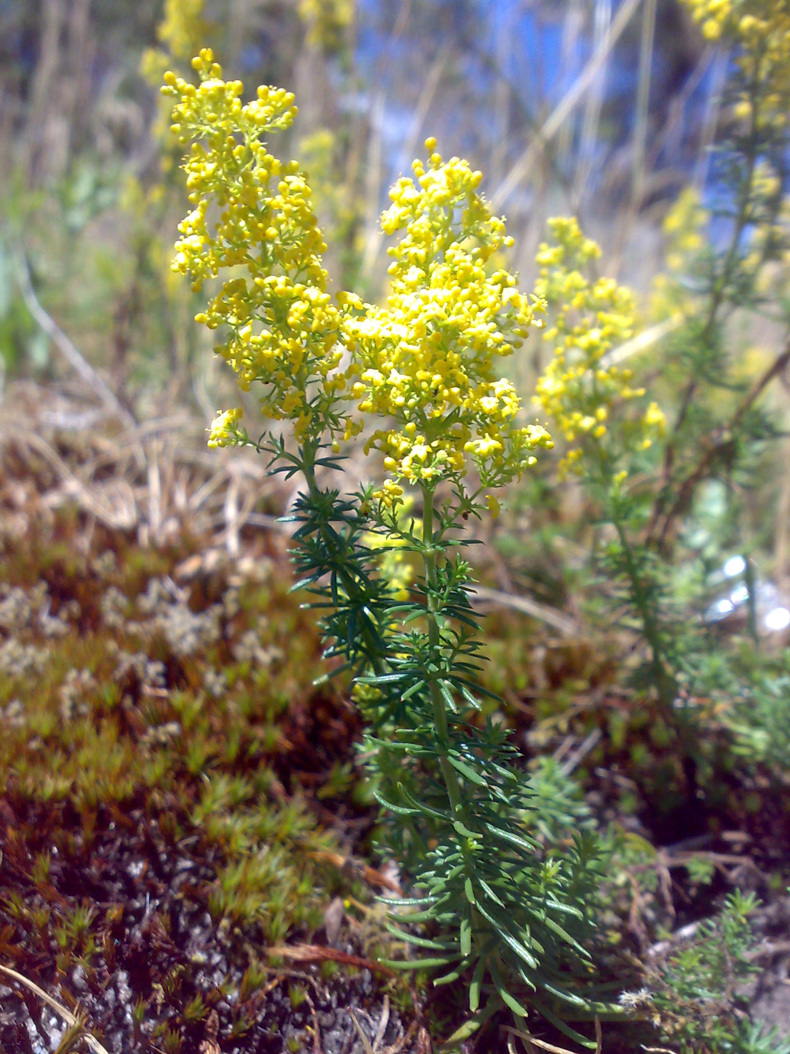 Galium verum Odderøya, Kristiansand, Norway